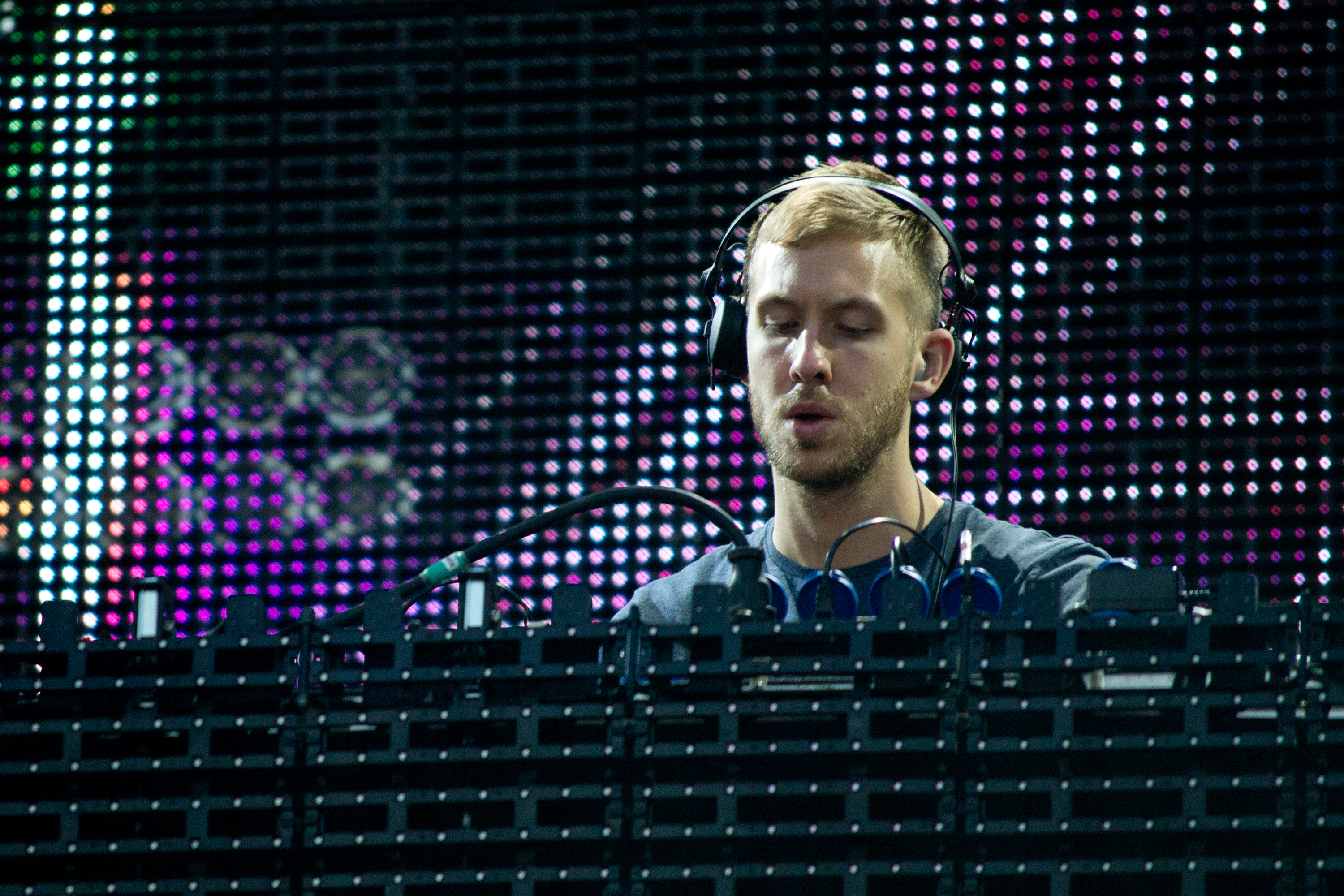 Calvin Harris in Rock in Rio Madrid 2012.